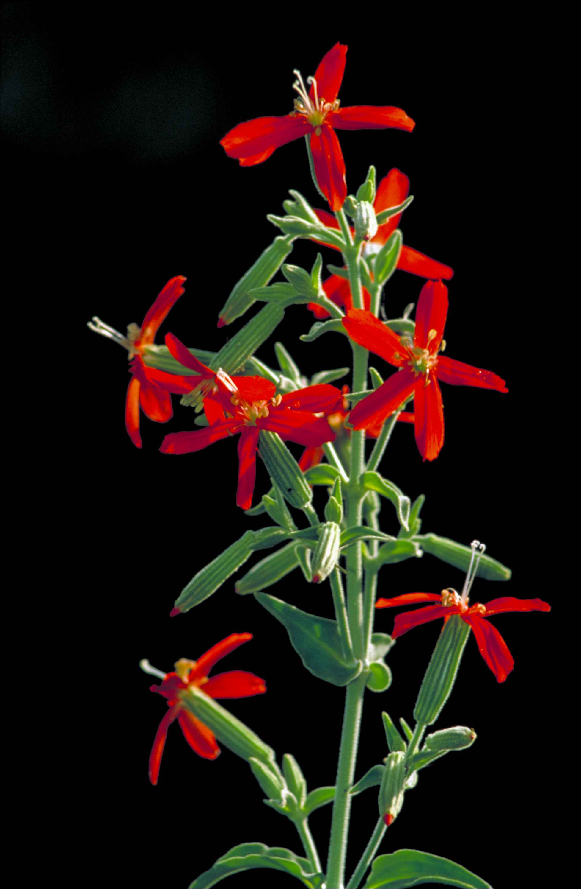 Image title: Deep red royal catchfly flower with white center silene regia Image from Public domain images website